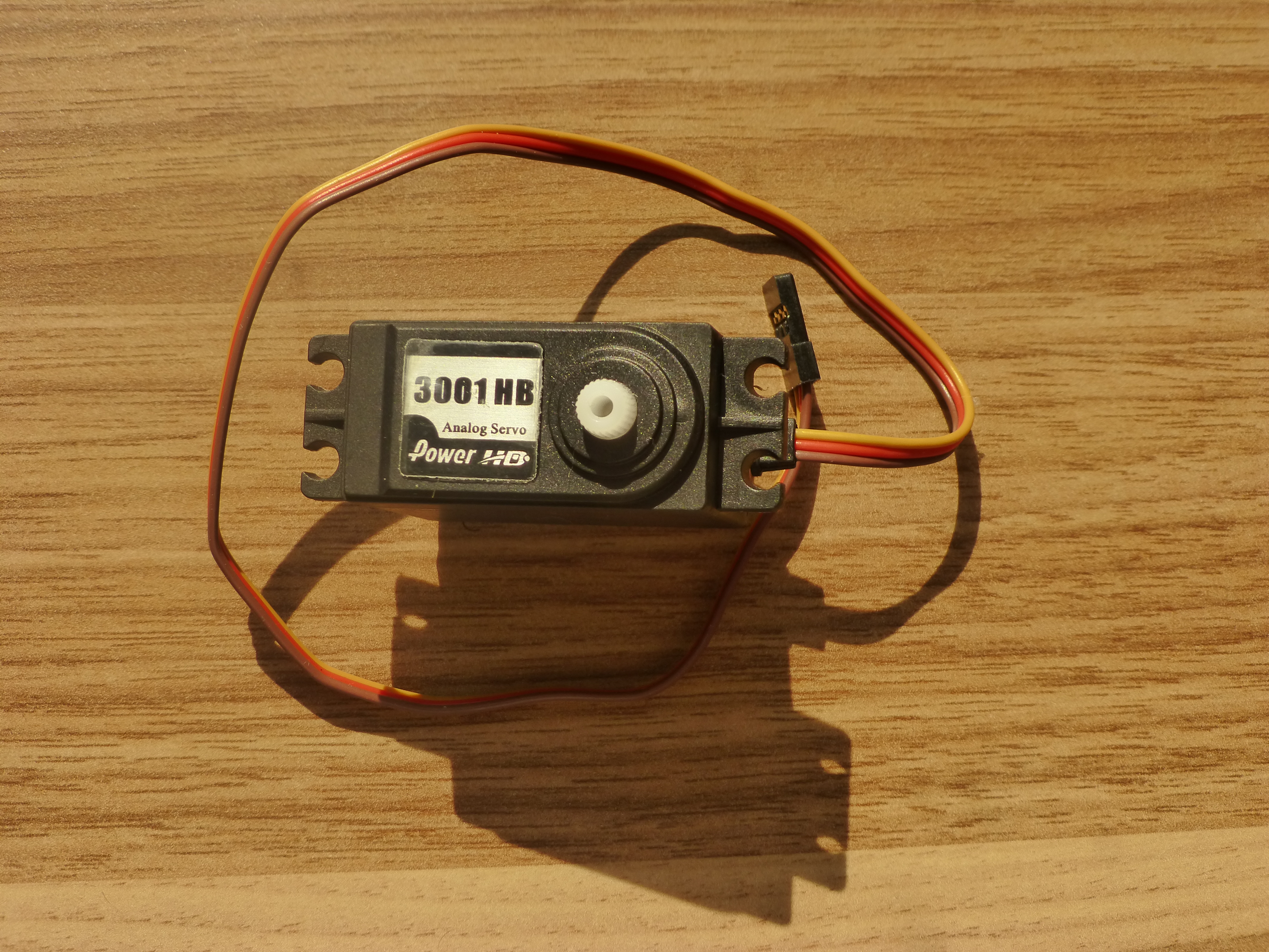 Servomotor